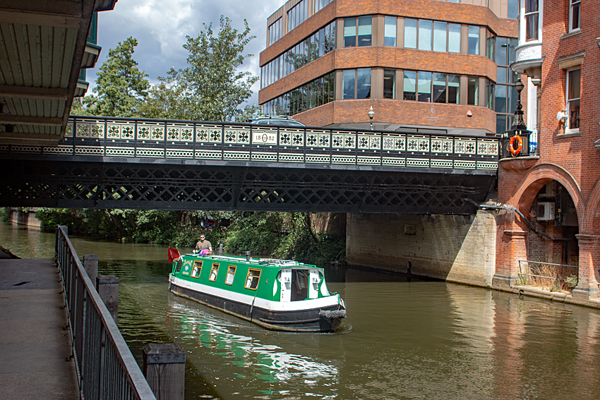 Narrow boat passing under the Bridge St Bridge on the Wey Navigation in Guildford